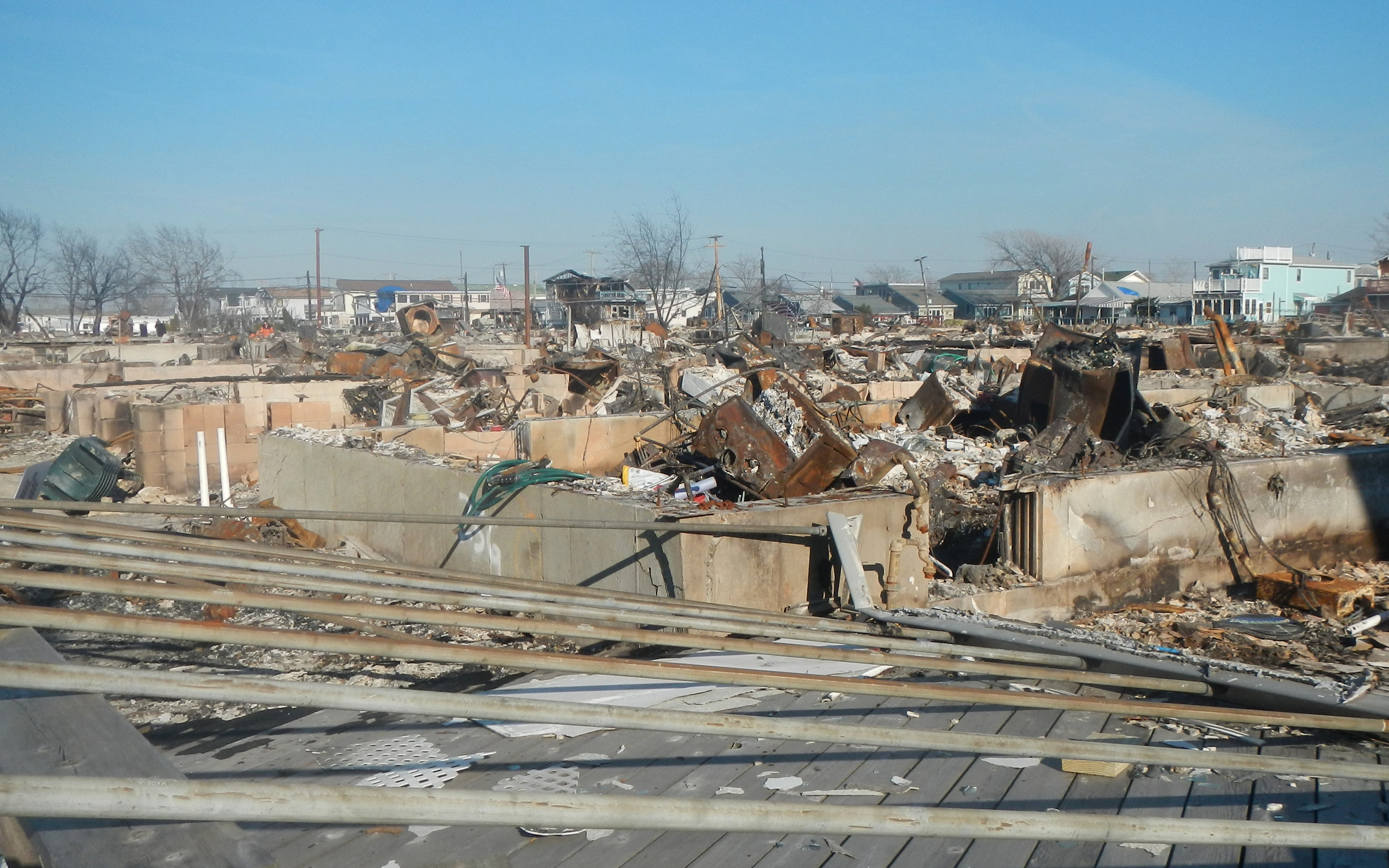 Looking northeast at burnt district.